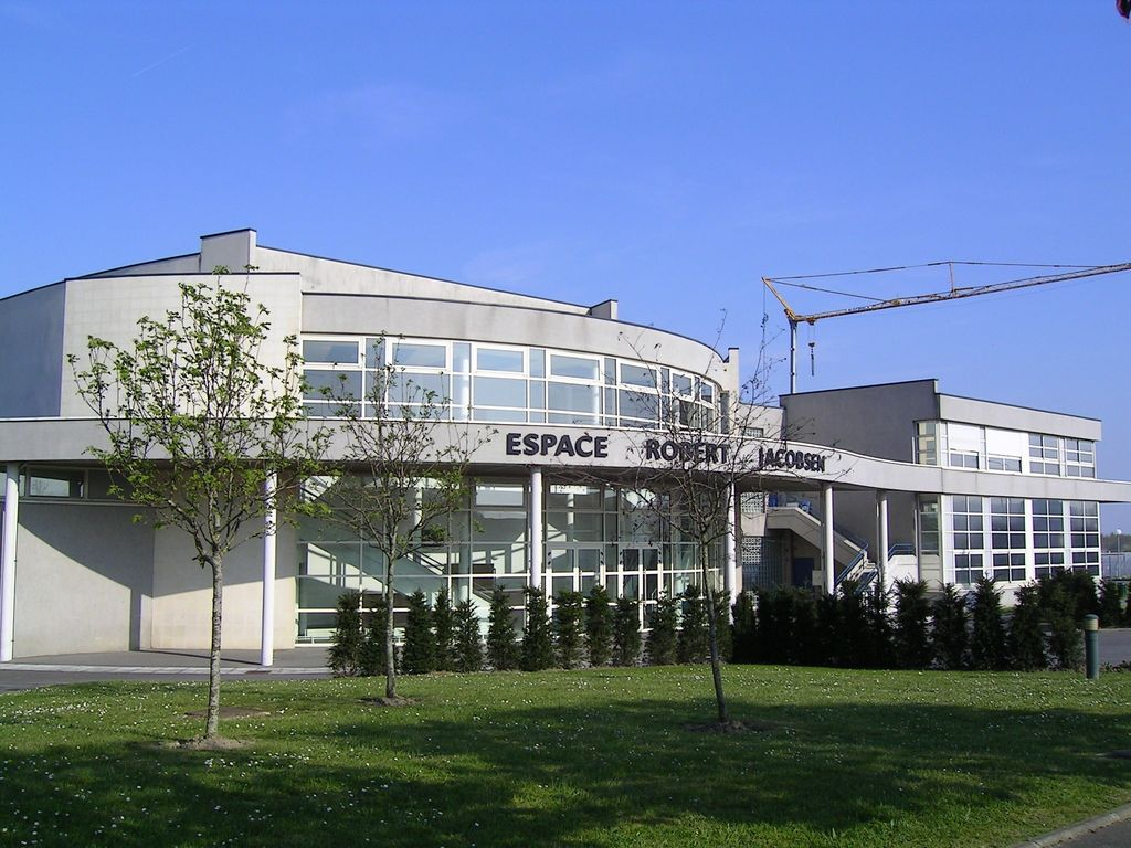 Espace Robert Jalobsen, Rue Charles Van Wyngene Photo personnelle (own work) de Marianna